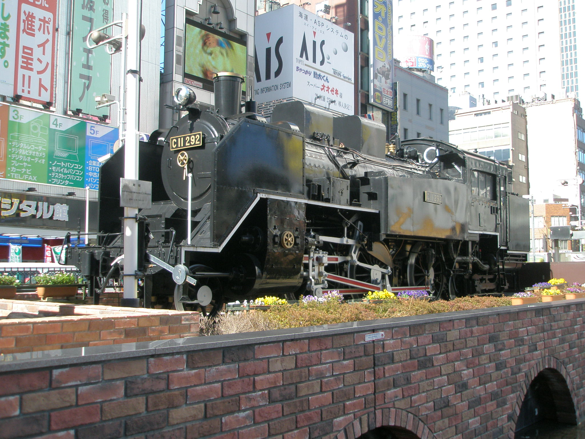 Former JNR Class C11 steam locomotive C11 292 preserved in front of Shimbashi Station in Tokyo